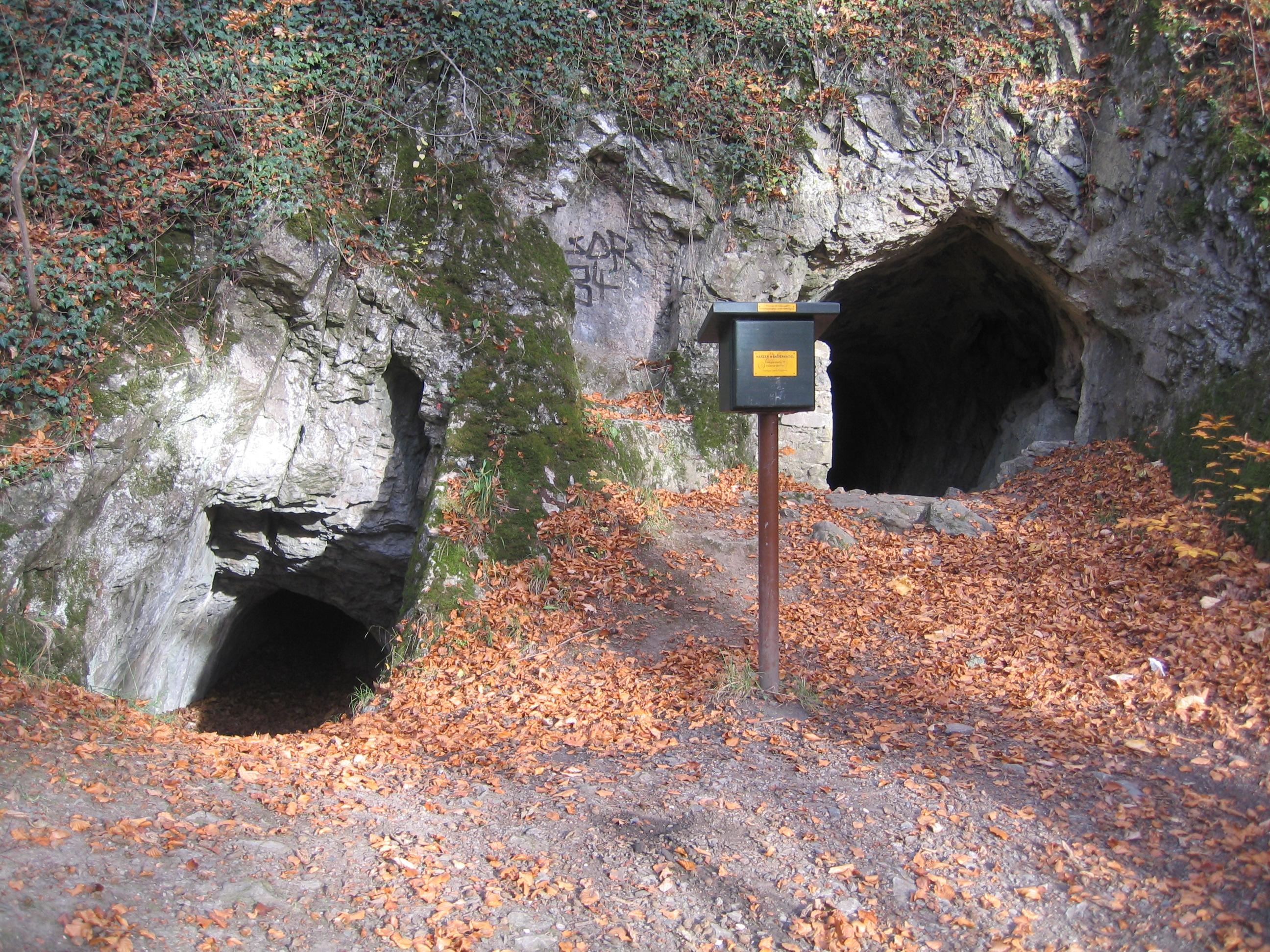 Cave openings at Volkmarskeller, a former cave with a church used as a retreat in the Harz Mountains of Germany